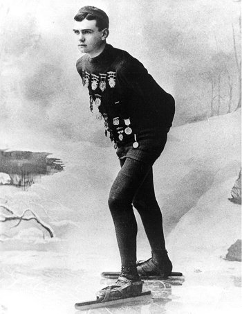 Image of United States speedskating champion Joseph F. Donoghue. Picture taken around 1893